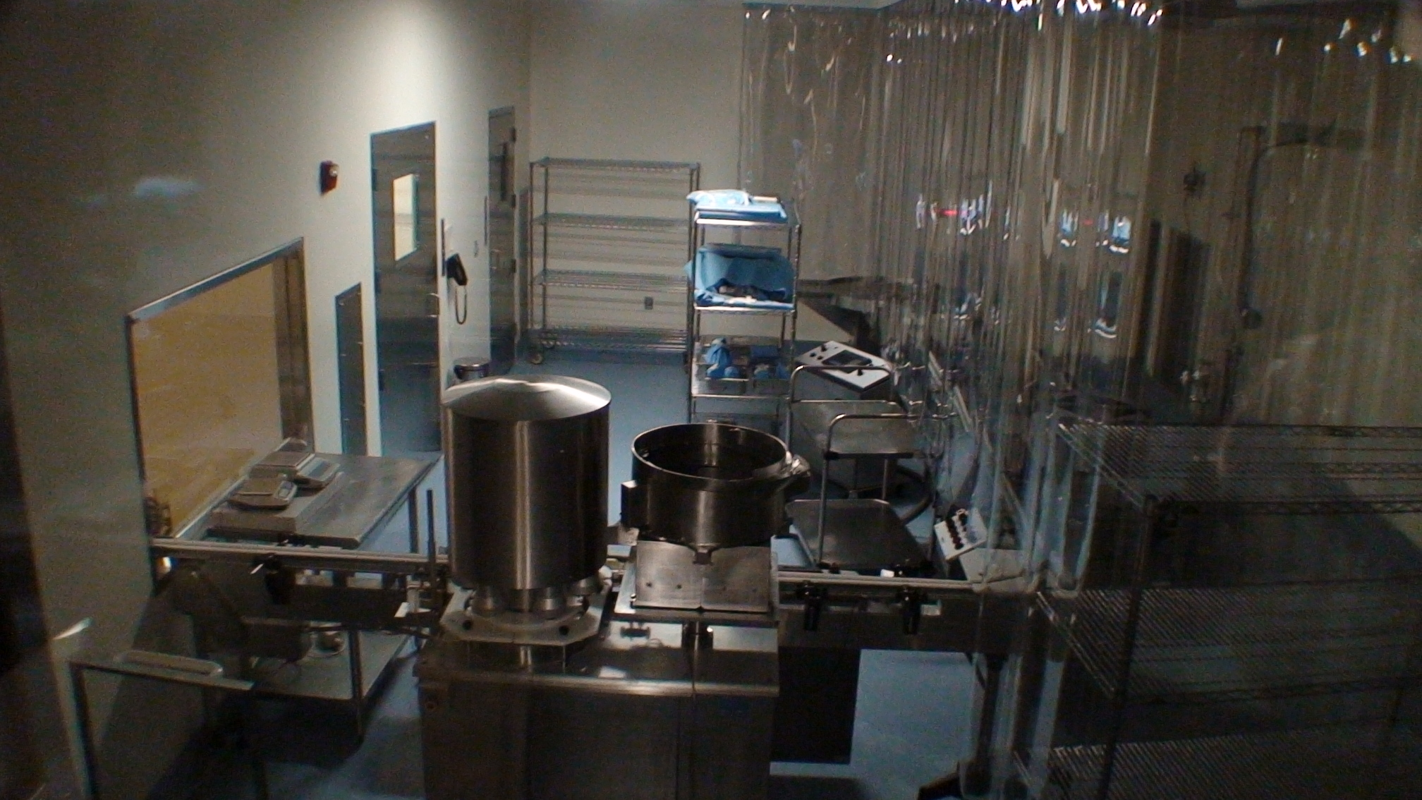 Vialing Station for bottling vaccines